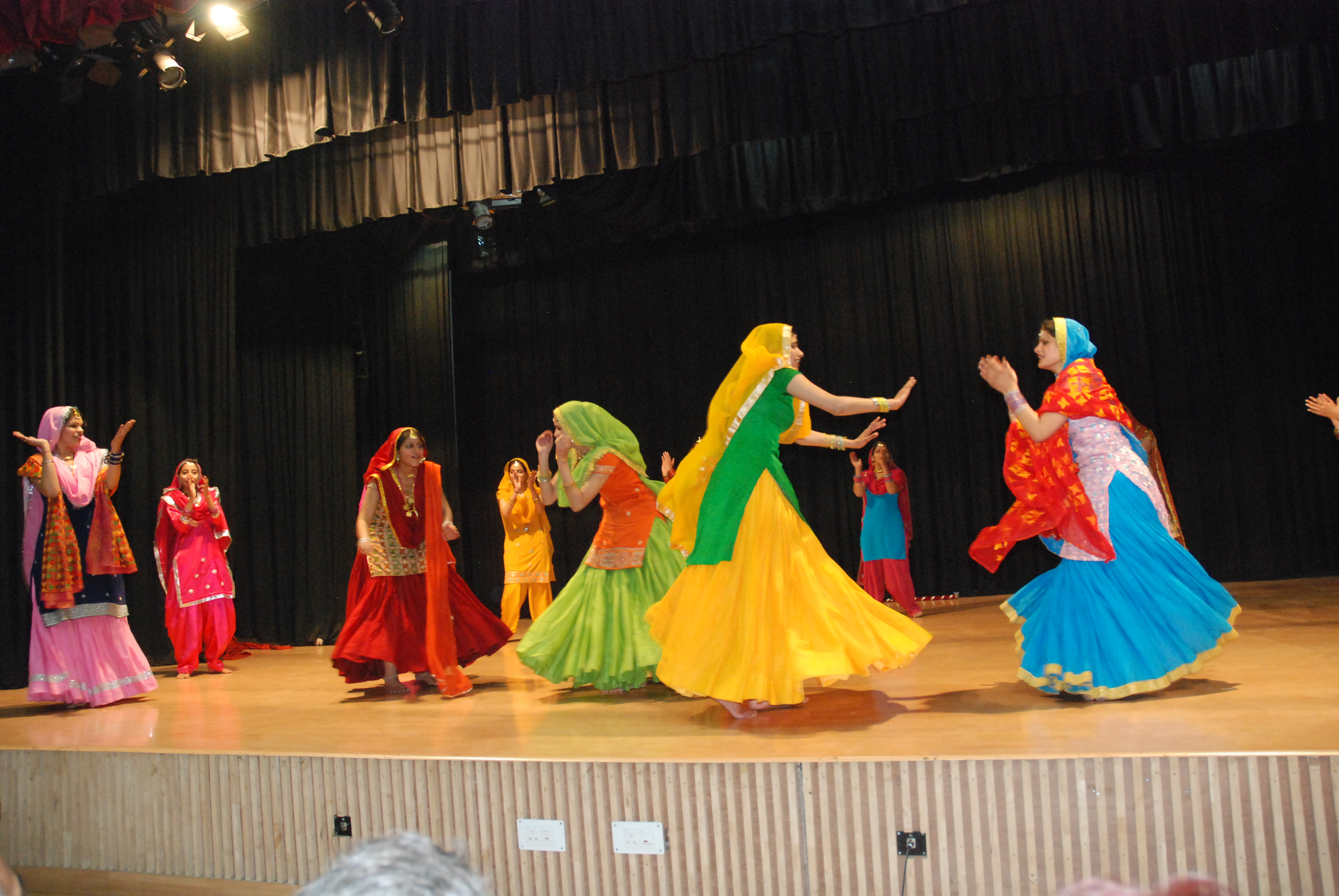 Punjabi folk Dance